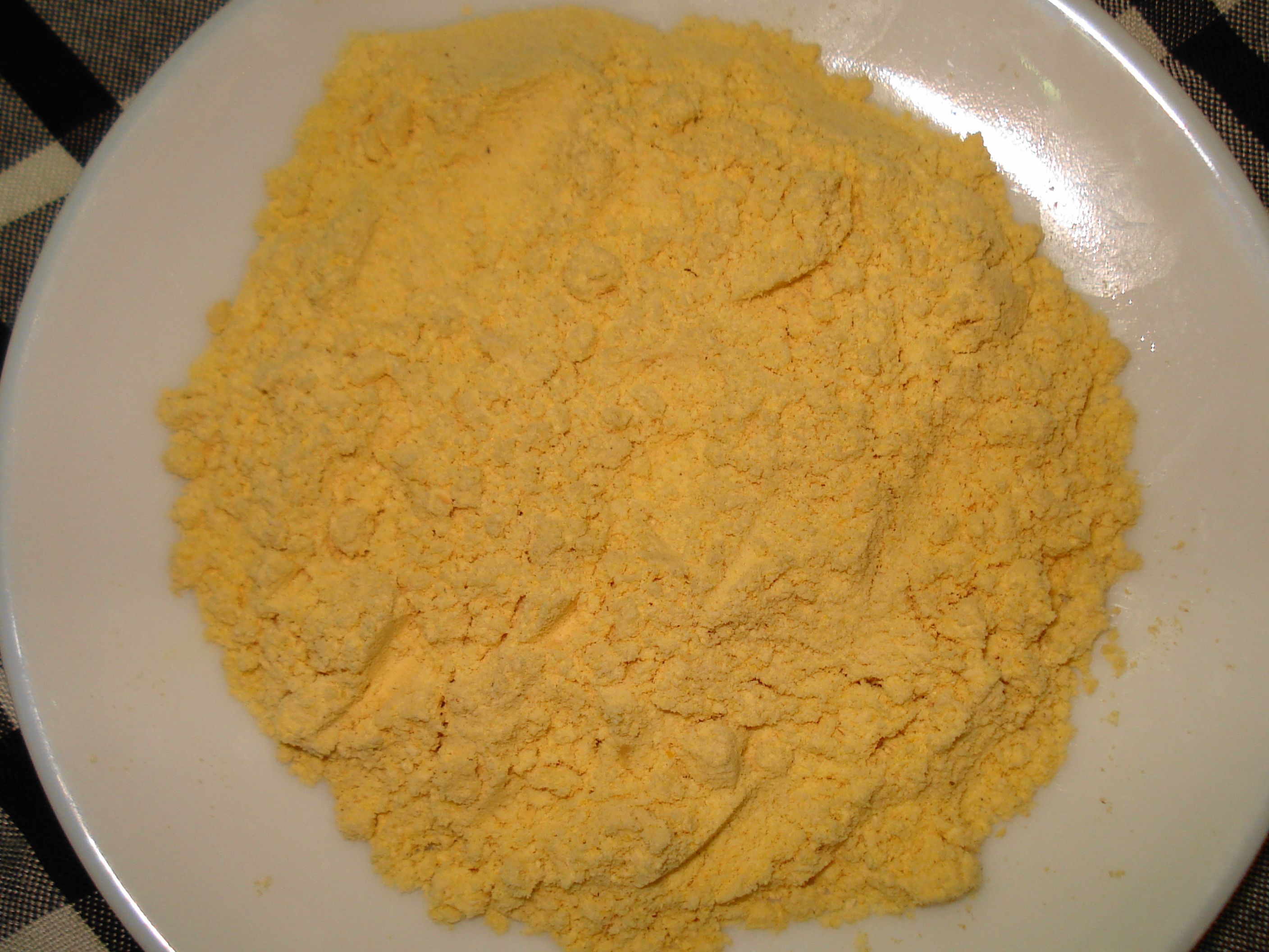 Corn flour